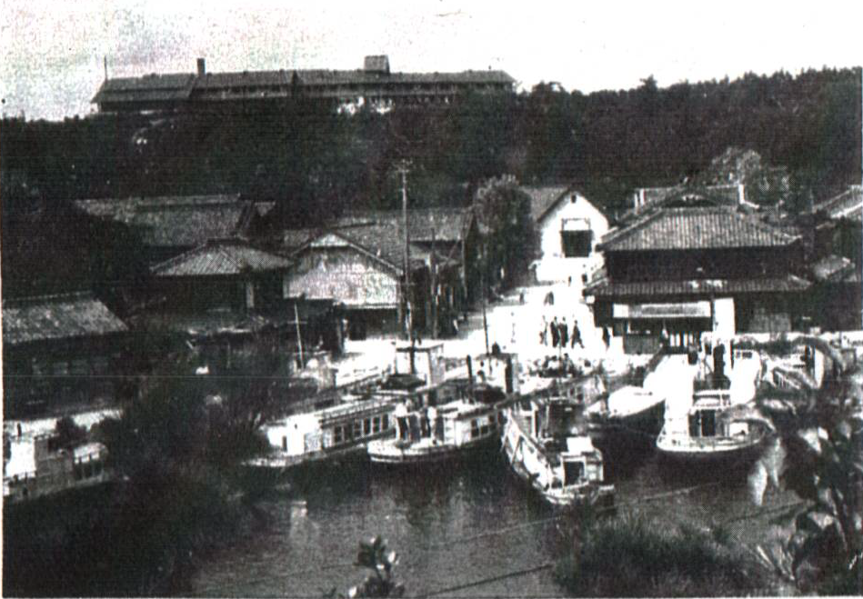 This is the Kashikojima port in Shimmei village, Shima district, Mie prefecture, Japan.